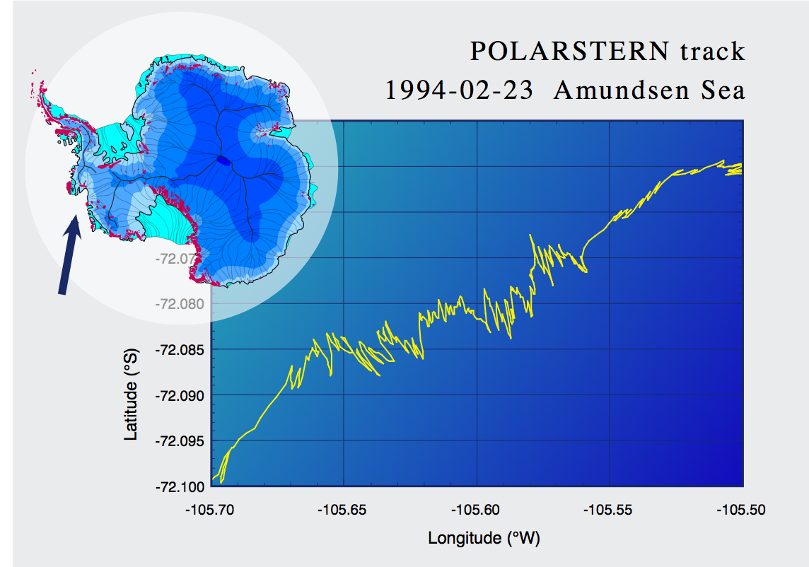 Ice breaking track of the german research vessel POLARSTERN in heavy sea ice of the Amundsen Sea during Leg ANT-XI/3